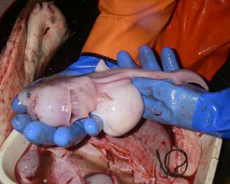 Salmon shark (Lamna ditropis) fetus, about halfway through gestation (from the AFSC Quarterly Research Report Apr-Jun 2008).